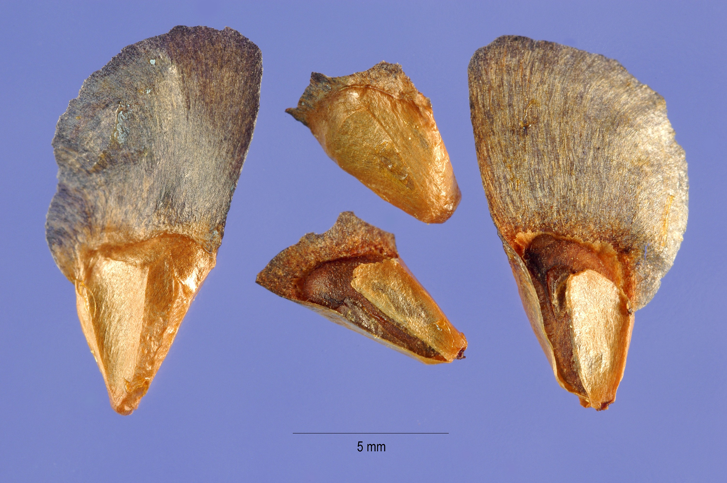 Fraser Fir. Seeds.